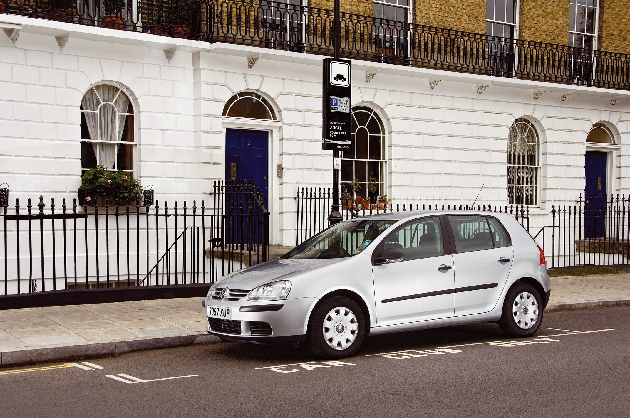 The Streetcar in its bay